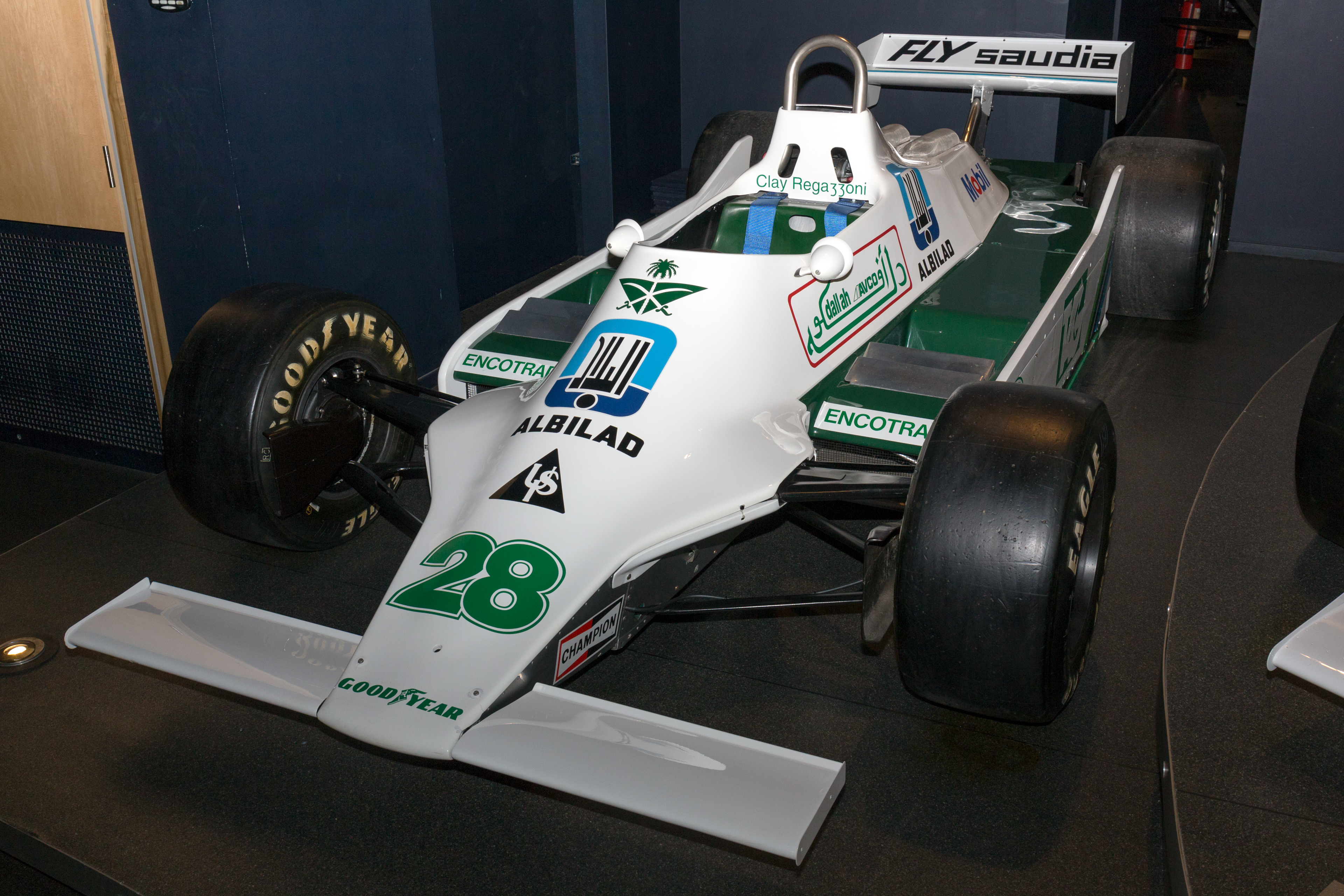 Williams Conference Centre (Grove): Williams FW07 of Clay Regazzoni